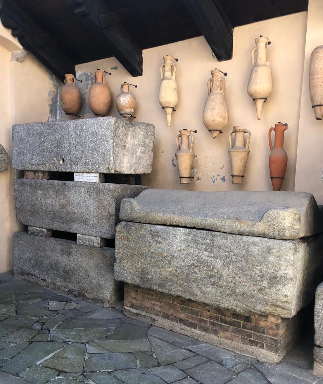 Sarcofagi e anfore provenienti dal Lapidario bruzziano